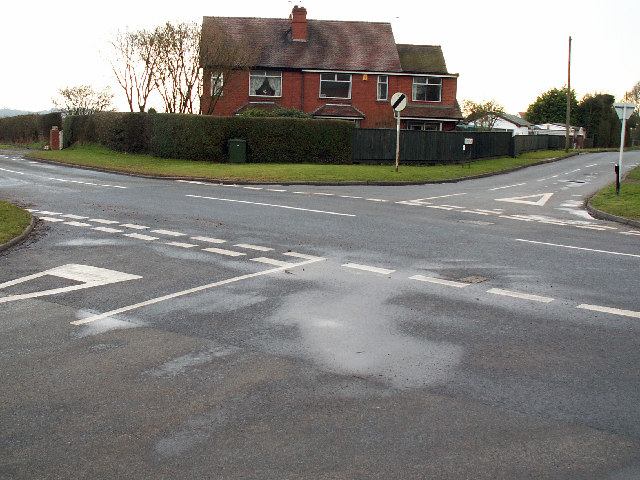 Road junction, Upper Marlbrook